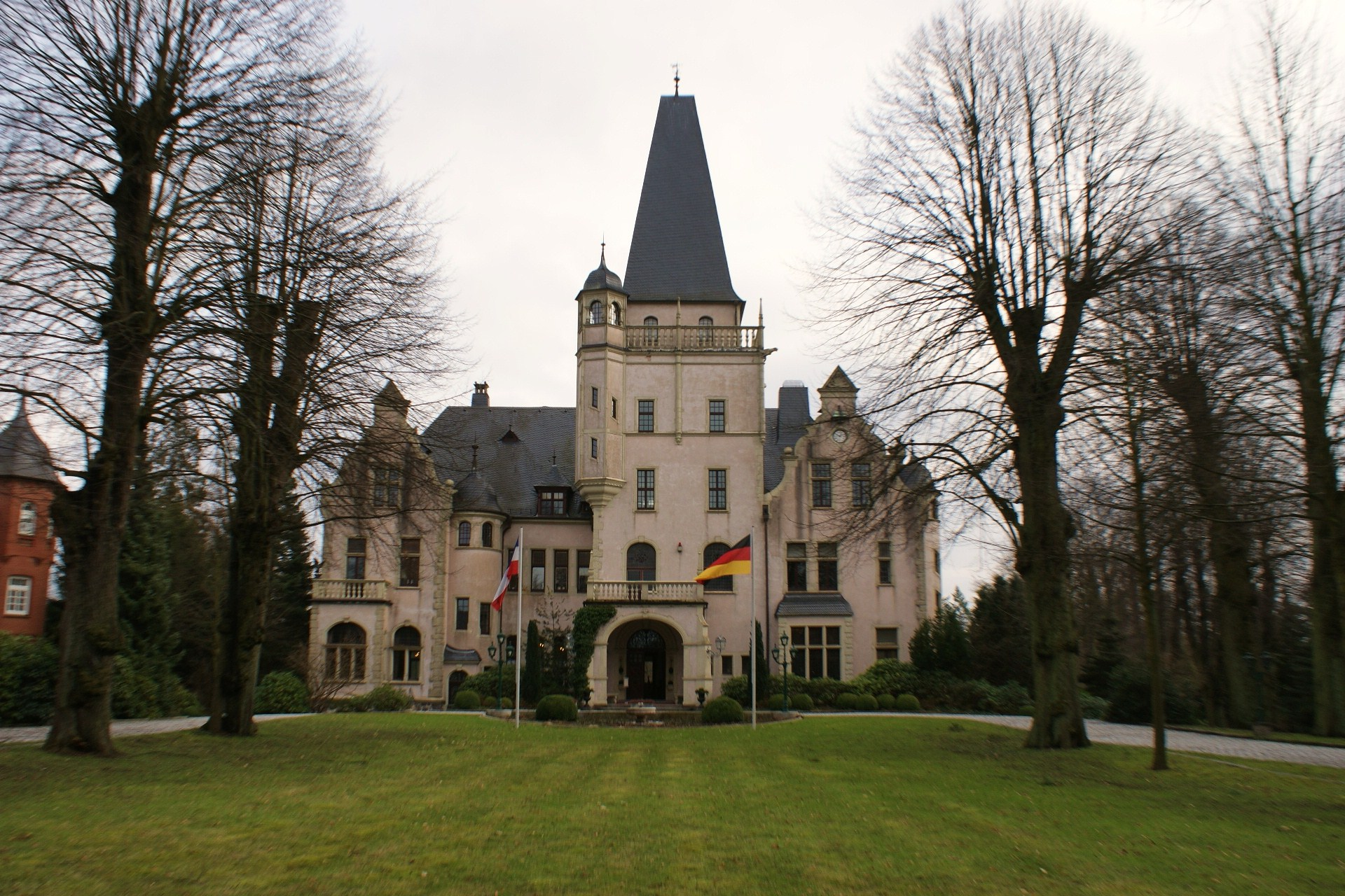 Tremsbüttel Castle